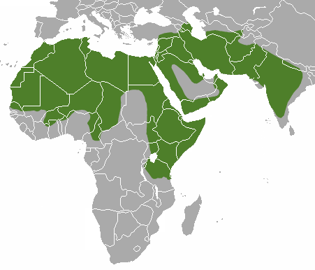 Striped Hyaena (Hyaena hyaena ) range